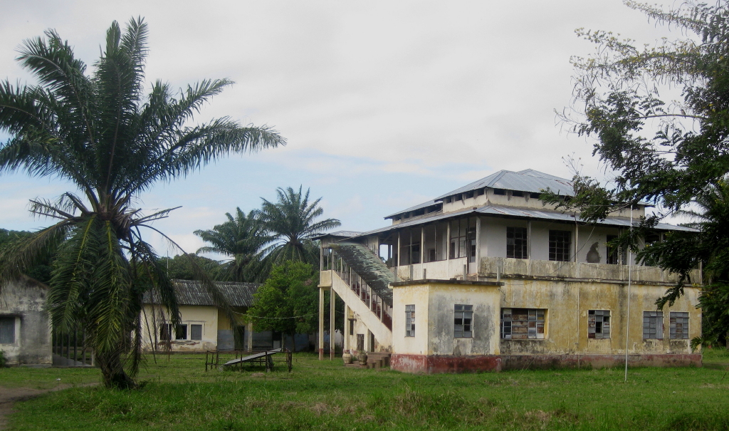 The local hospital in Luabo town in Chinde district of Mozambique.